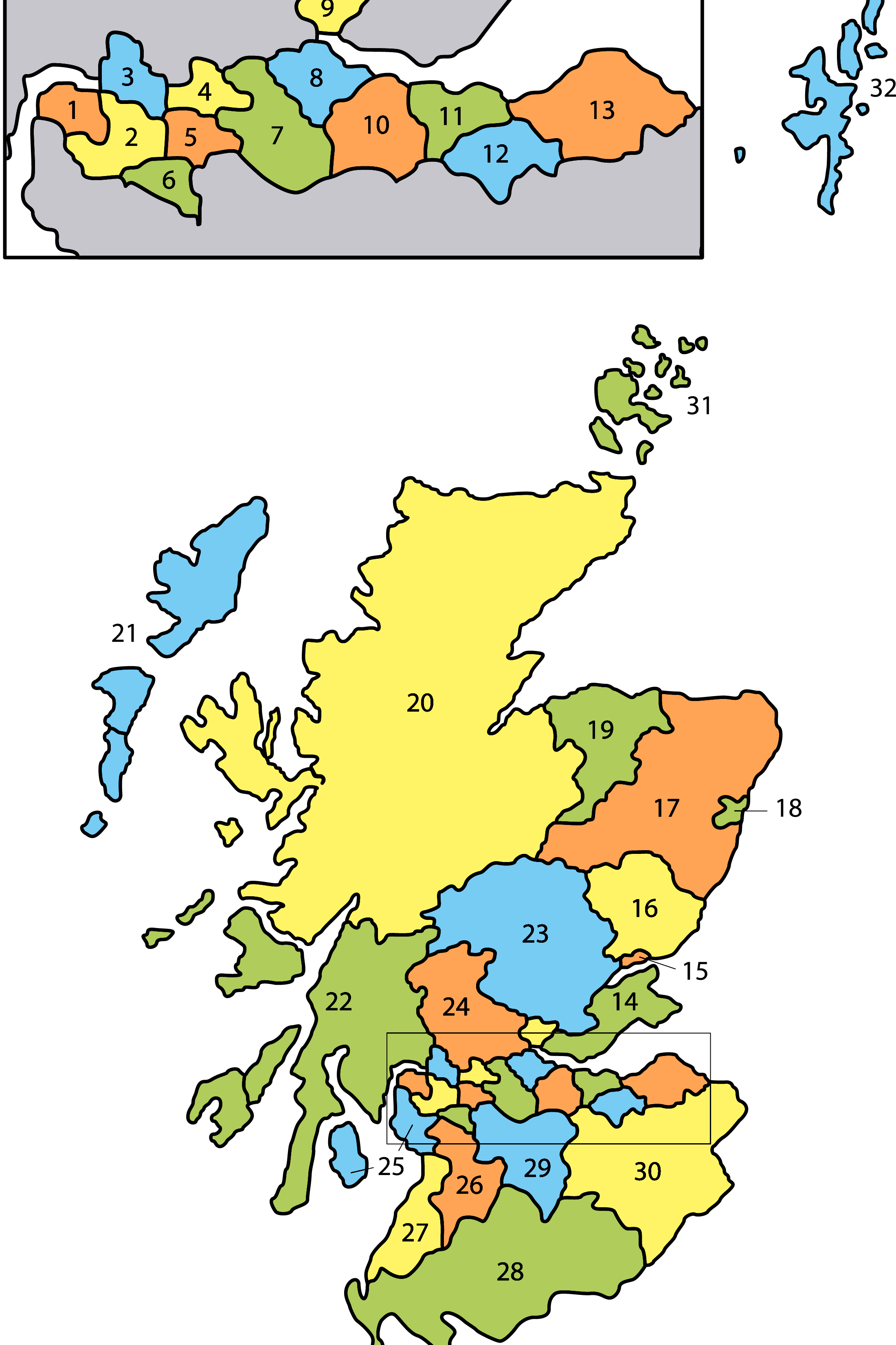 Scottish council areas, based on Image:Scotland No.svg